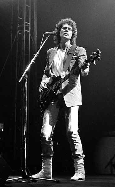 John Illsley 10th May 1985, With "Dire Straits" on "Brothers In Arms Tour". "Hala Pionir" venue in Belgrade, Yugoslavia (now Serbia).